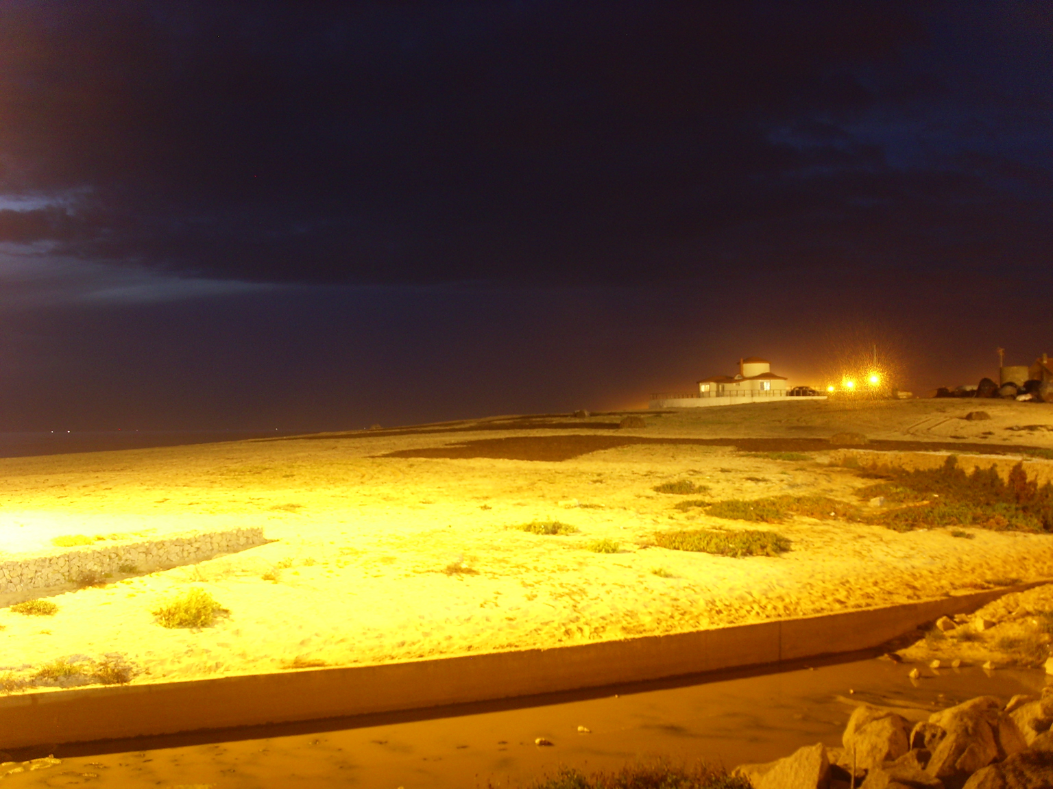 Esteiro Beach, Póvoa de Varzim